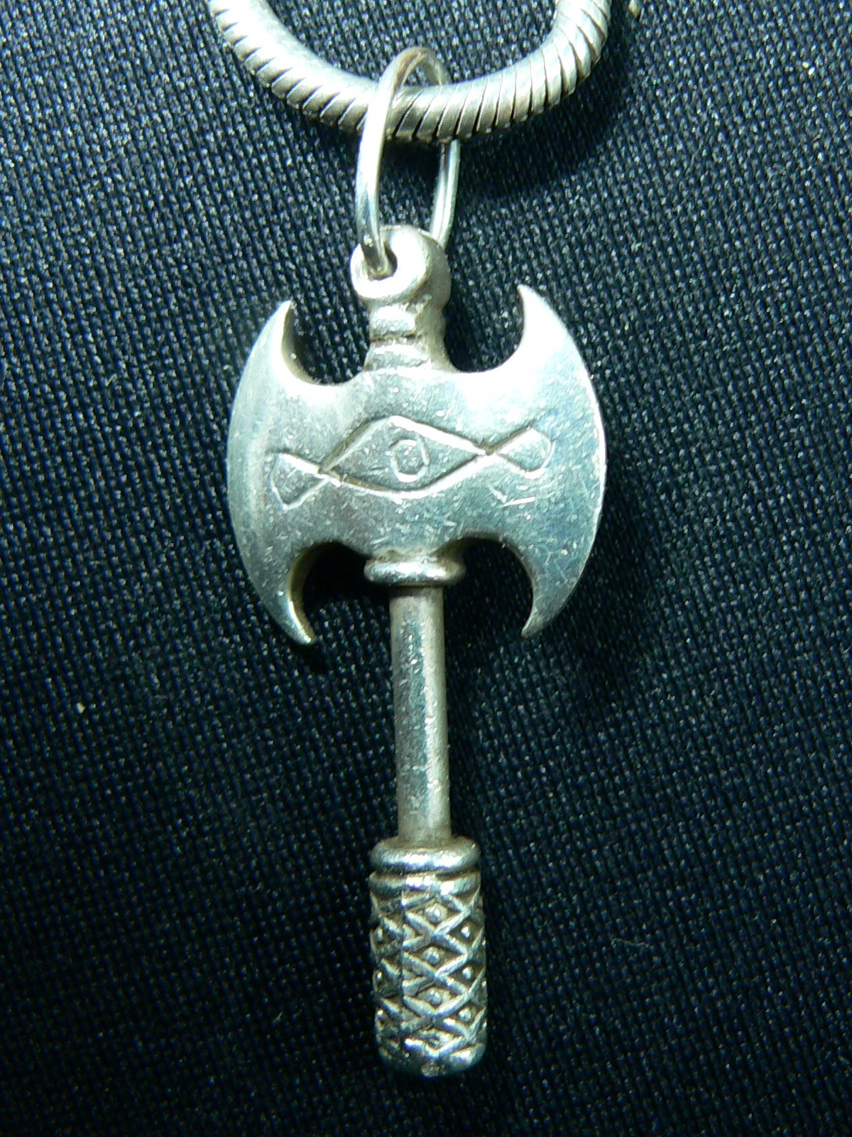 Labrys, modern silver pendant